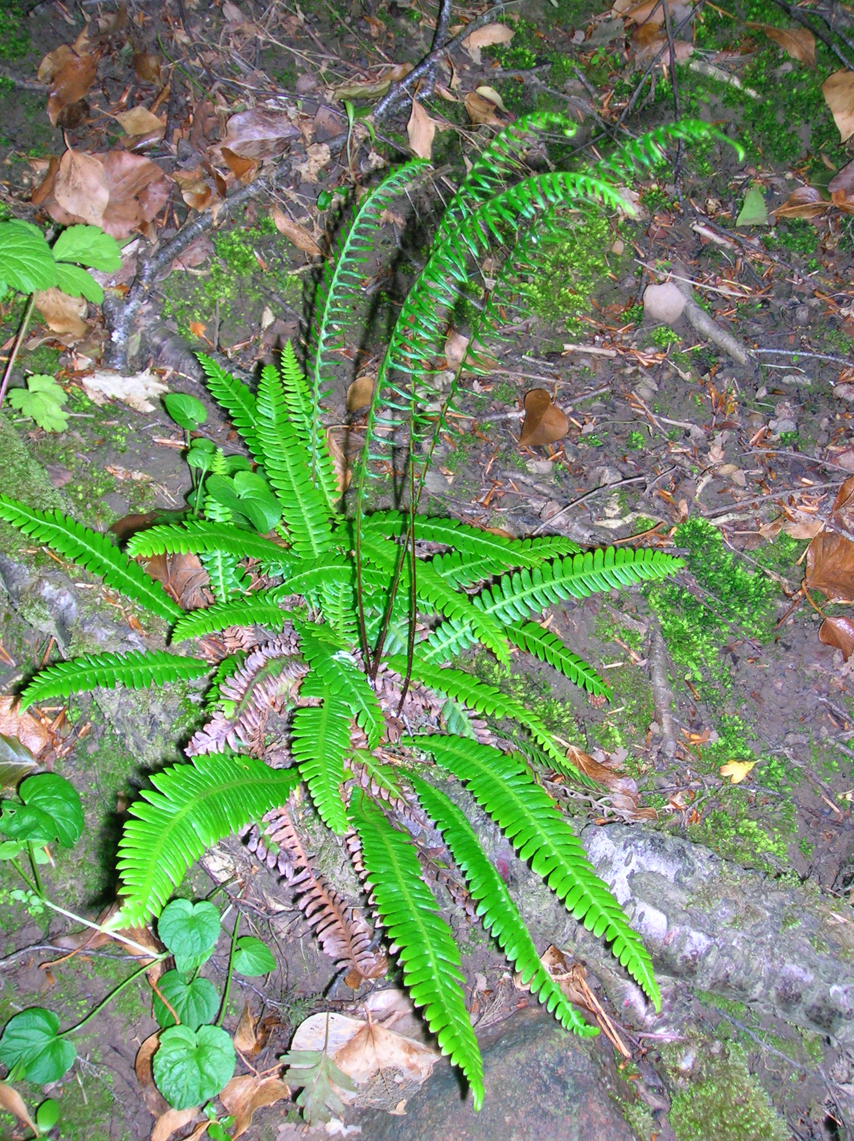 The Hard Fern, Blechnum spicant growing in the Lynn Glen, Dalry. Note the spore bearing vertical fronds.